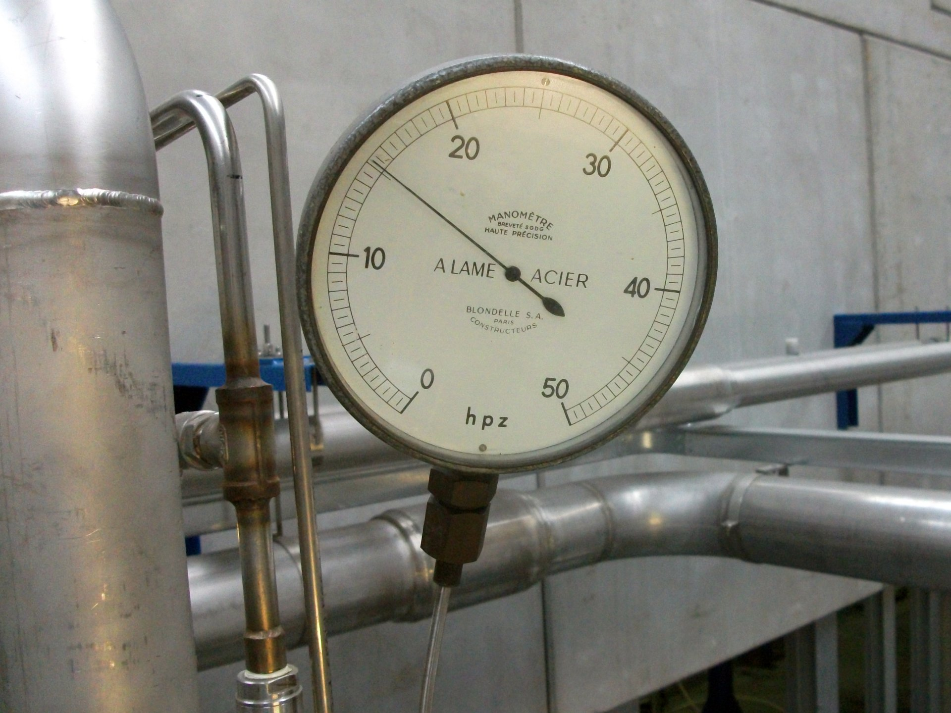 manometer with graduation in hpz (hectopieze, 1 hpz = 1 bar)